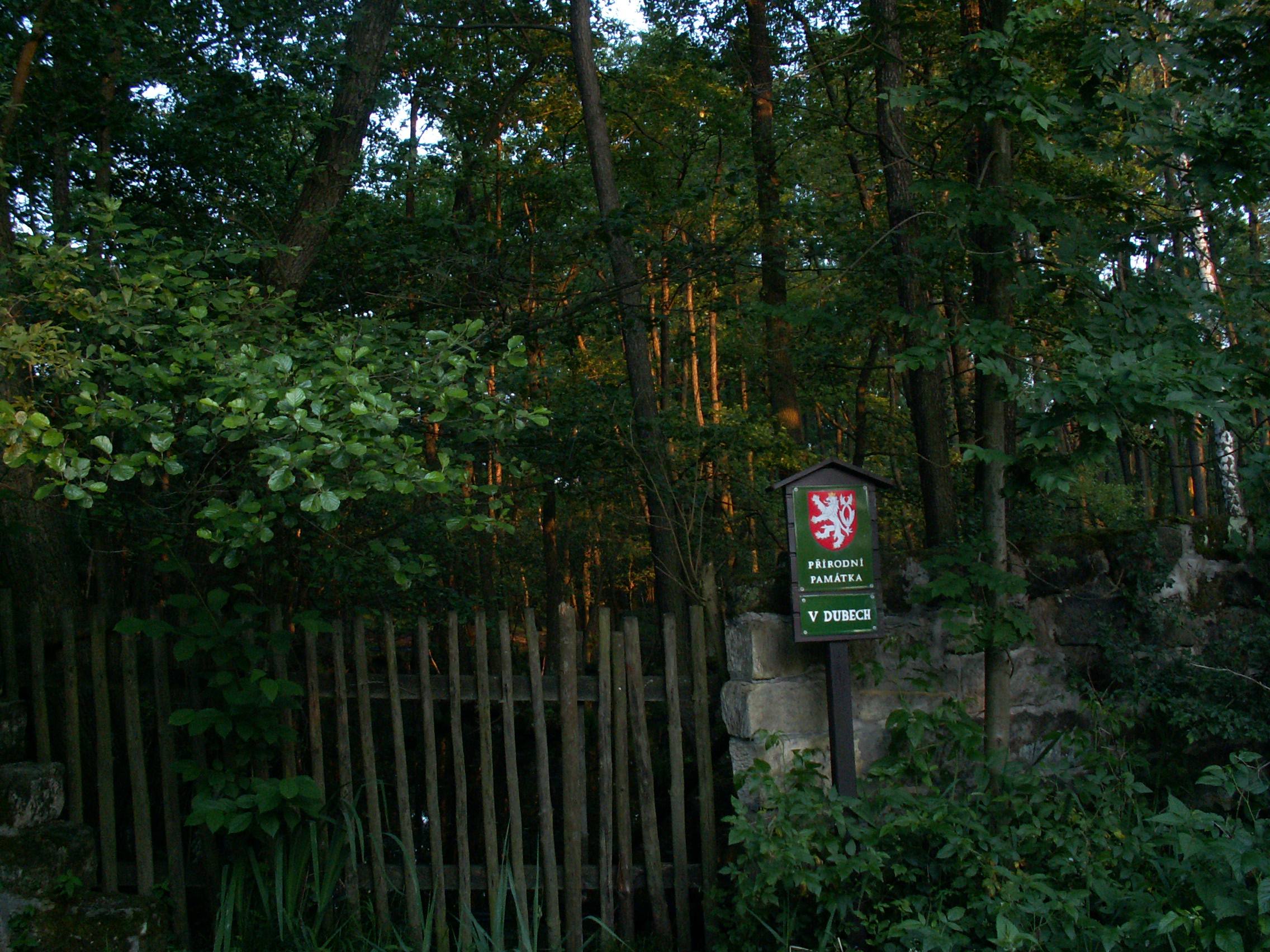 V Dubech natural monument